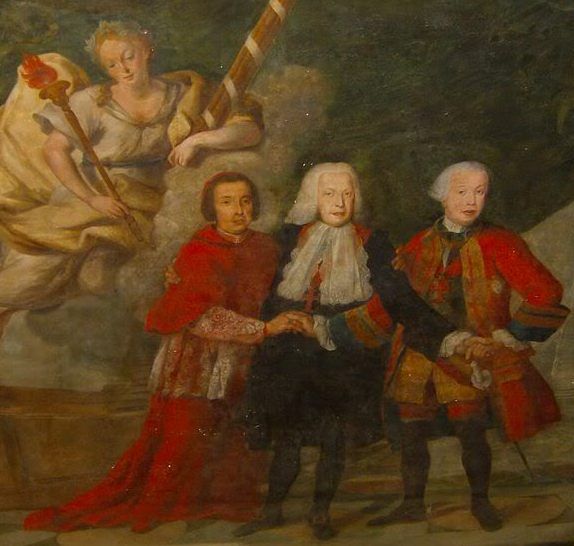 no palacio dos marqueses